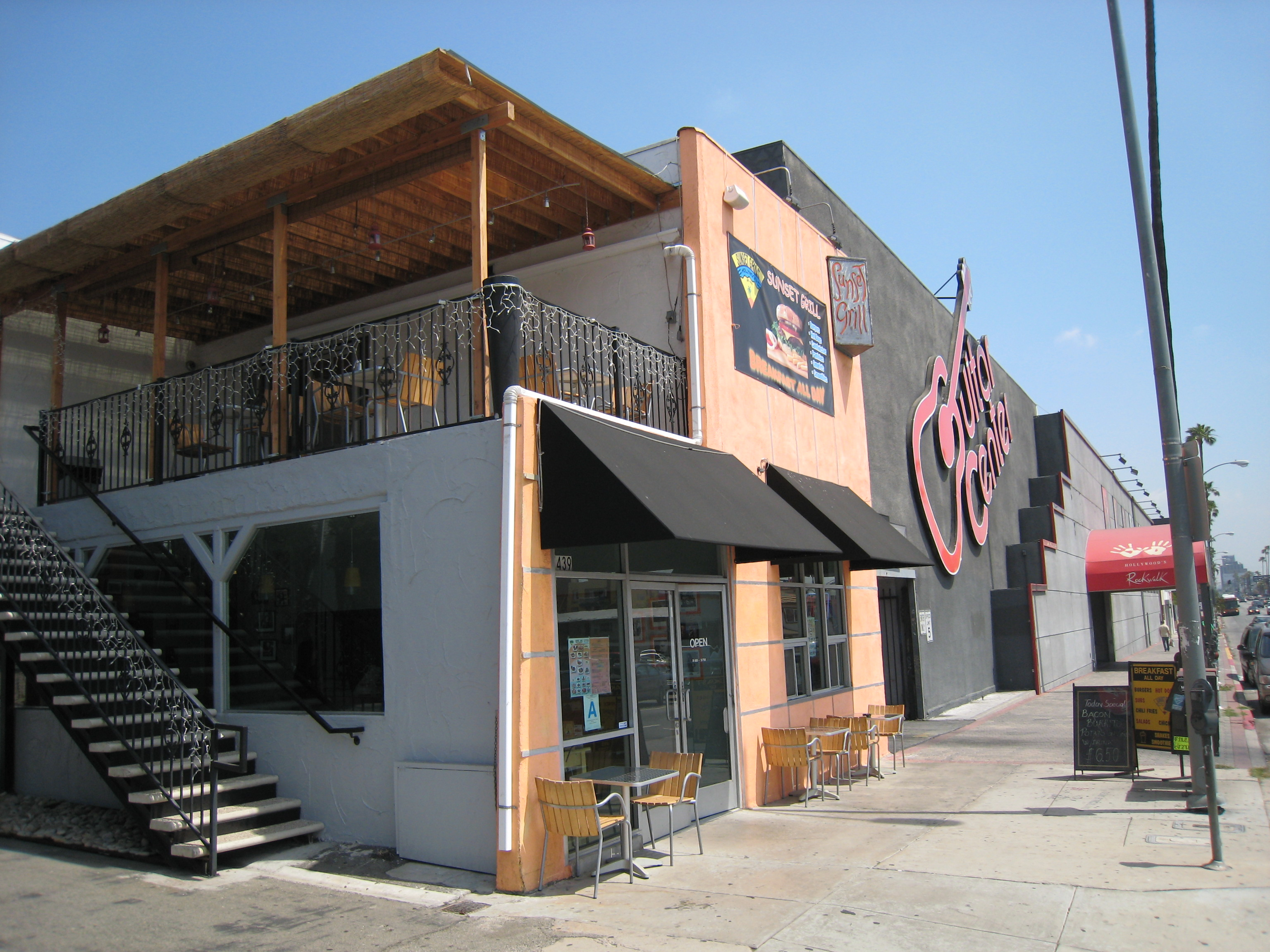 Sunset Grill restaurant in West Hollywood, California